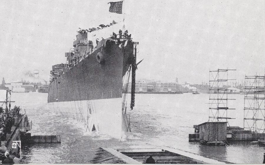 Launch of the U.S. Navy light cruiser USS Dayton (CL-105) at the New York Shipbuilding Company, Camden, New Jersey (USA), on 19 March 1944.